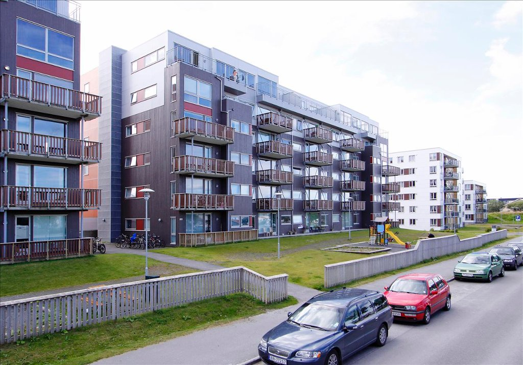 The western apartment buildings in Badeparken, Bodø, Norway.